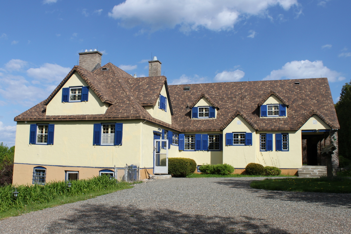 Dayspring is a home of historical significance in St. Andrews, NB and the former residence of the Baroness Lady Beaverbrook. It was built in 1929 by Lewis Egerton Smoot, an American industrialist, and subsequently purchased in 1947 by Canadian financier Sir James Dunn. The property was inherited by Lady Dunn on the death of her husband in 1956. Lady Dunn later married Max Aitken,1st Baron Lord Beaverbrook who died a year after their marriage in 1964. Lady Beaverbrook continued to live at Dayspring until her death in 1994.